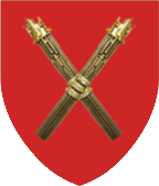 Marshal canes of the Polish-Lithuanian Commonwealth